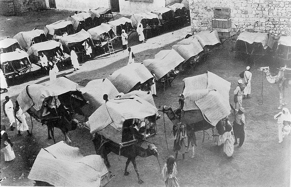 Camels and tents of pilgrims in Mecca, circa 1910.